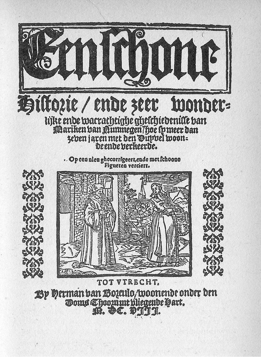 Page of the text Mariken van Nieumeghen.